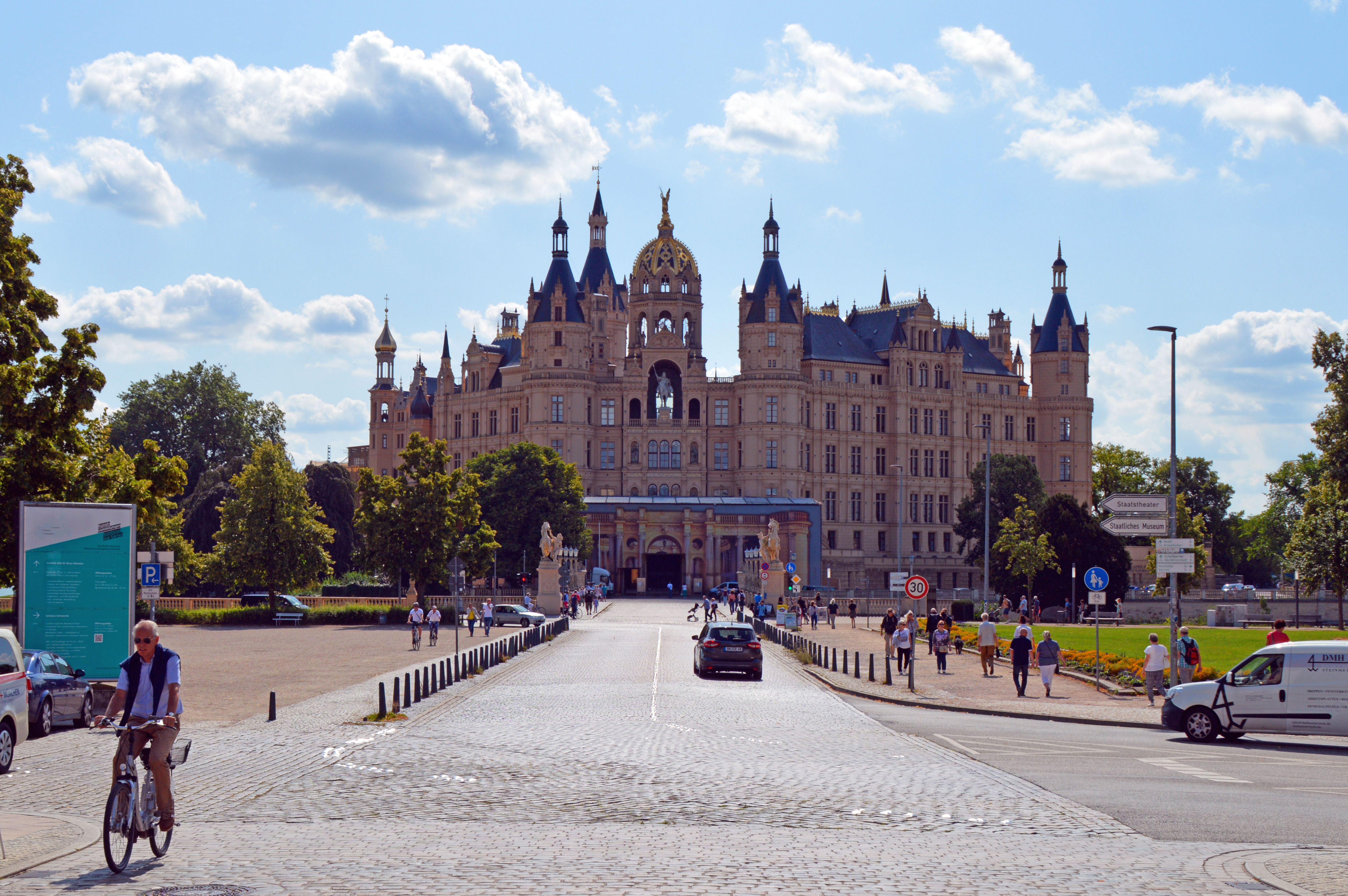 Schwerin Schweriner Schloss Kasteel van Schwerin Palace Castle Mecklenburg-Vorpommern Duitsland Germany